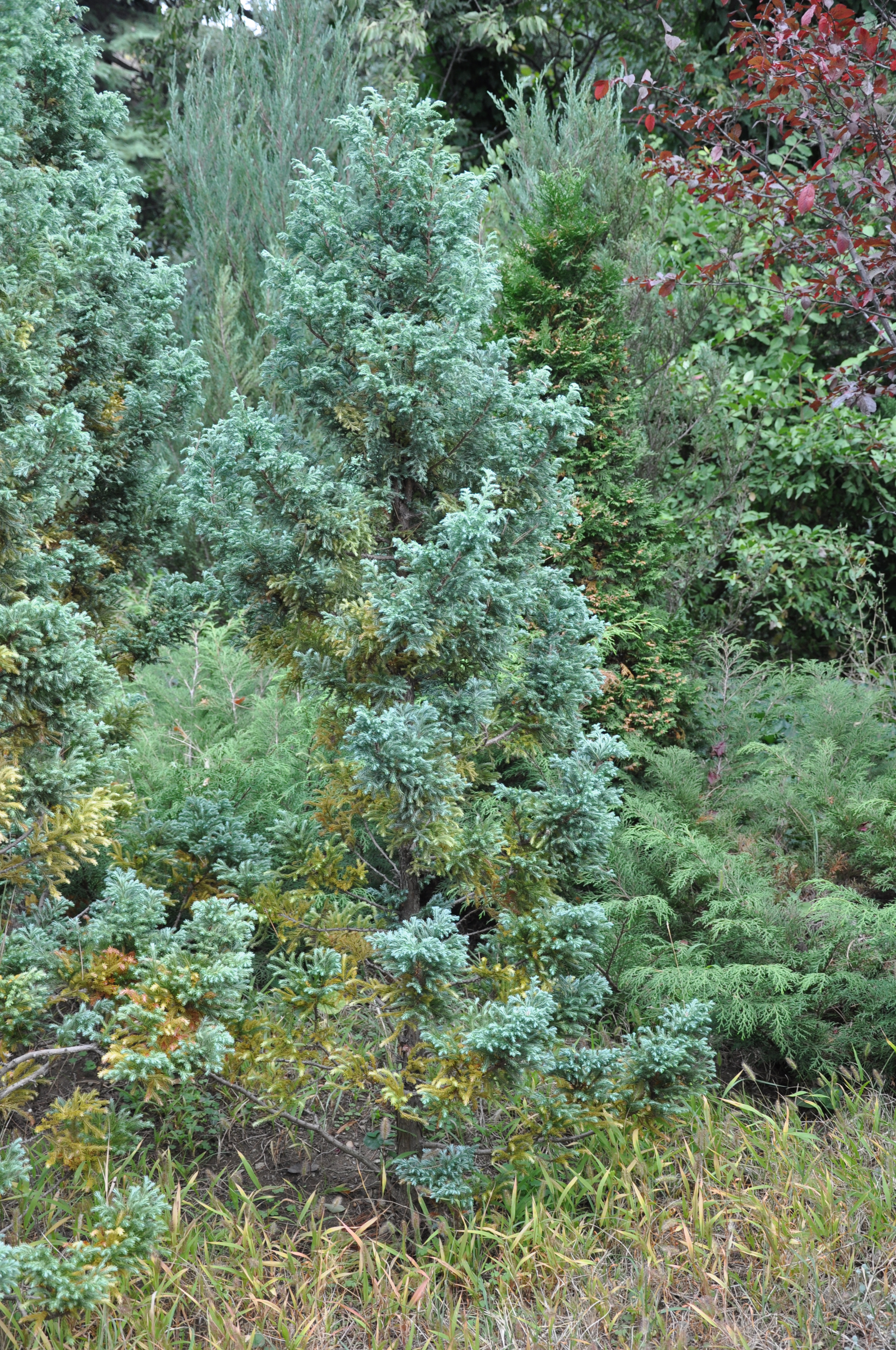 Taken in Tbilisi